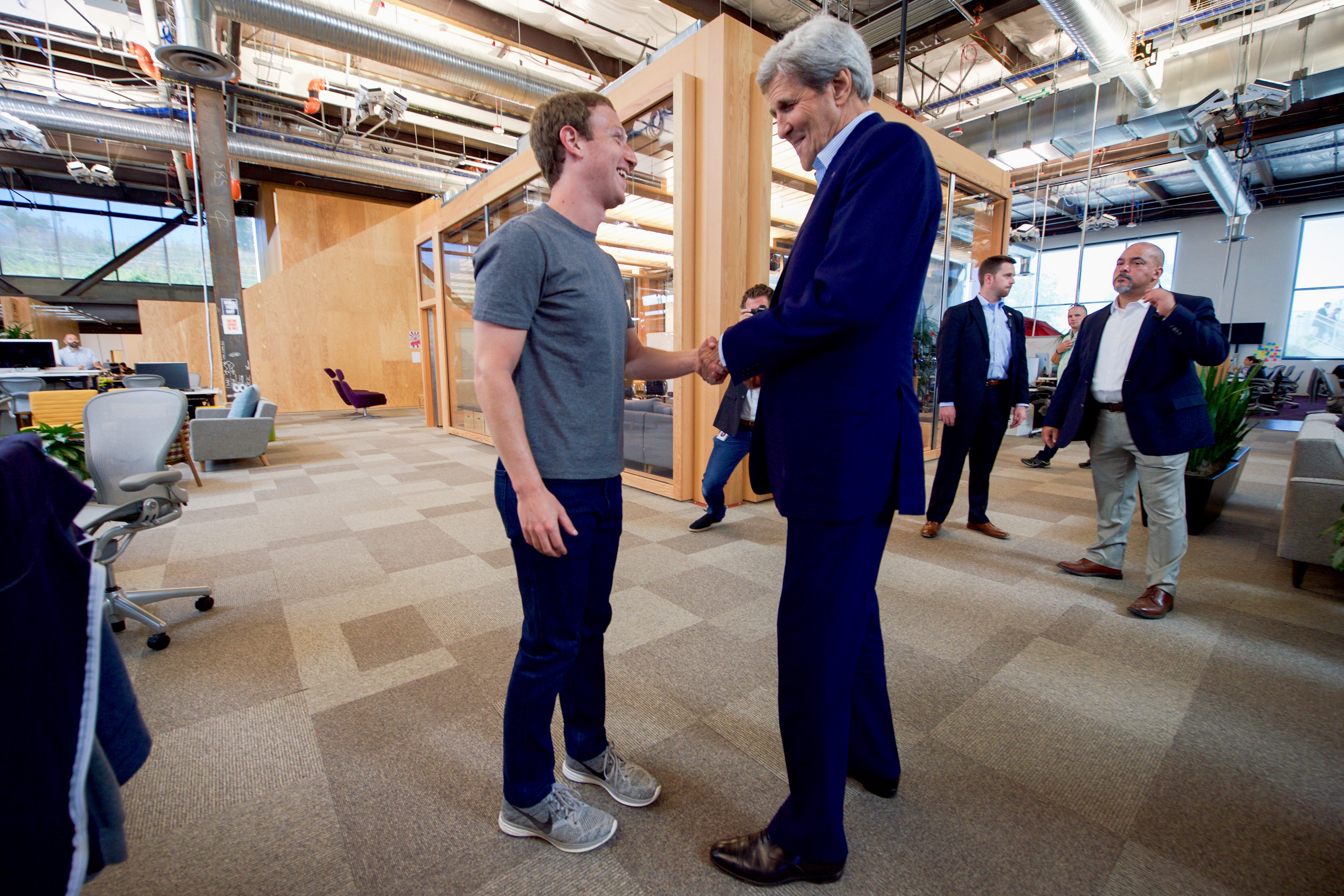 U.S. Secretary of State John Kerry uses his left hand to shake hands with Facebook CEO Mark Zuckerberg, who has a broken right arm, before their meeting at Facebook's new headquarters in Menlo Park, California, on June 23, 2016. Earlier, Secretary Kerry delivered remarks at the Opening Plenary of the 2016 Global Entrepreneurship Summit and toured the Innovation Marketplace on the campus of Stanford University. [State Department photo/ Public Domain]